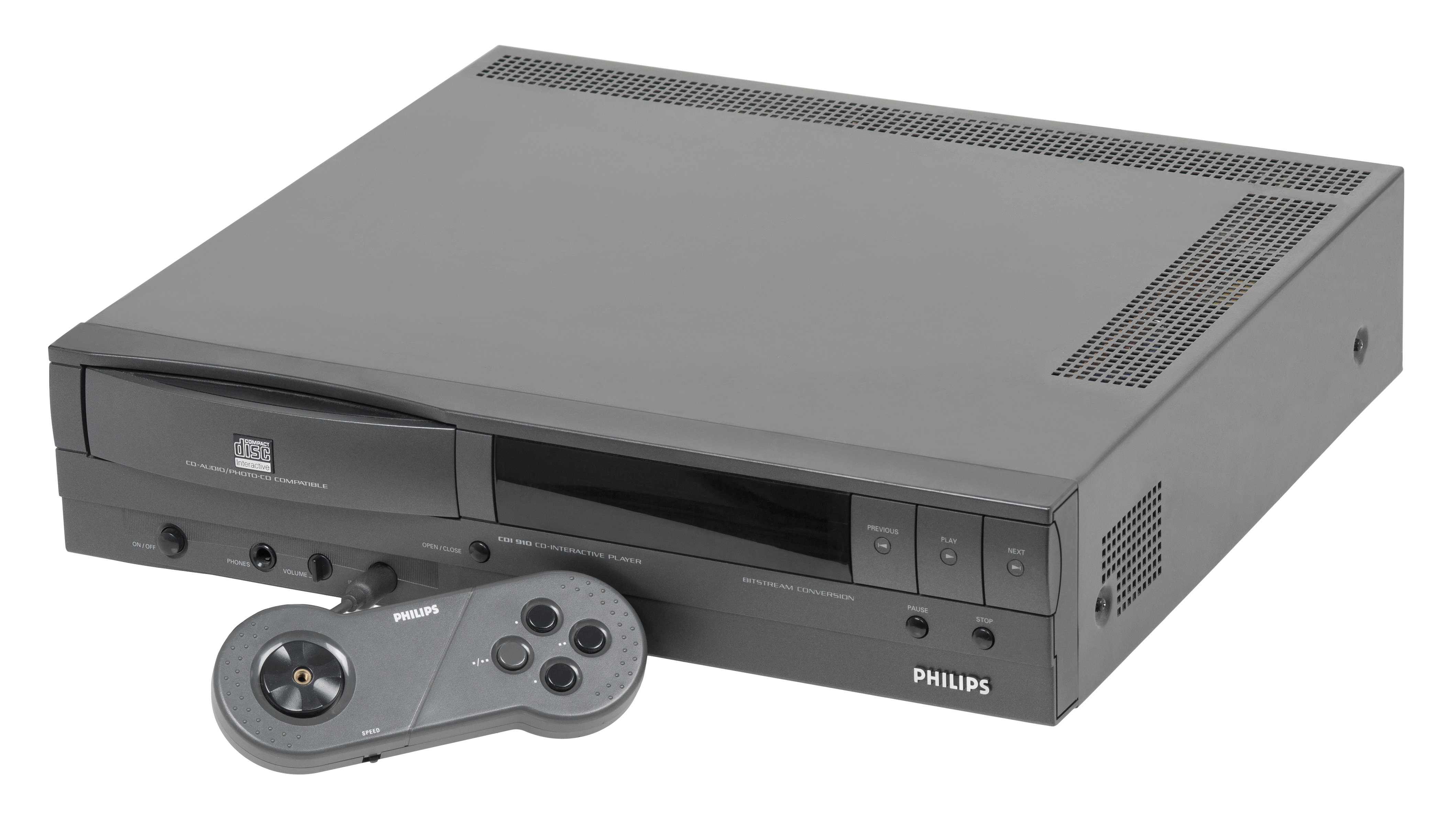 A Philips CD-i 910 video game console, shown with controller.